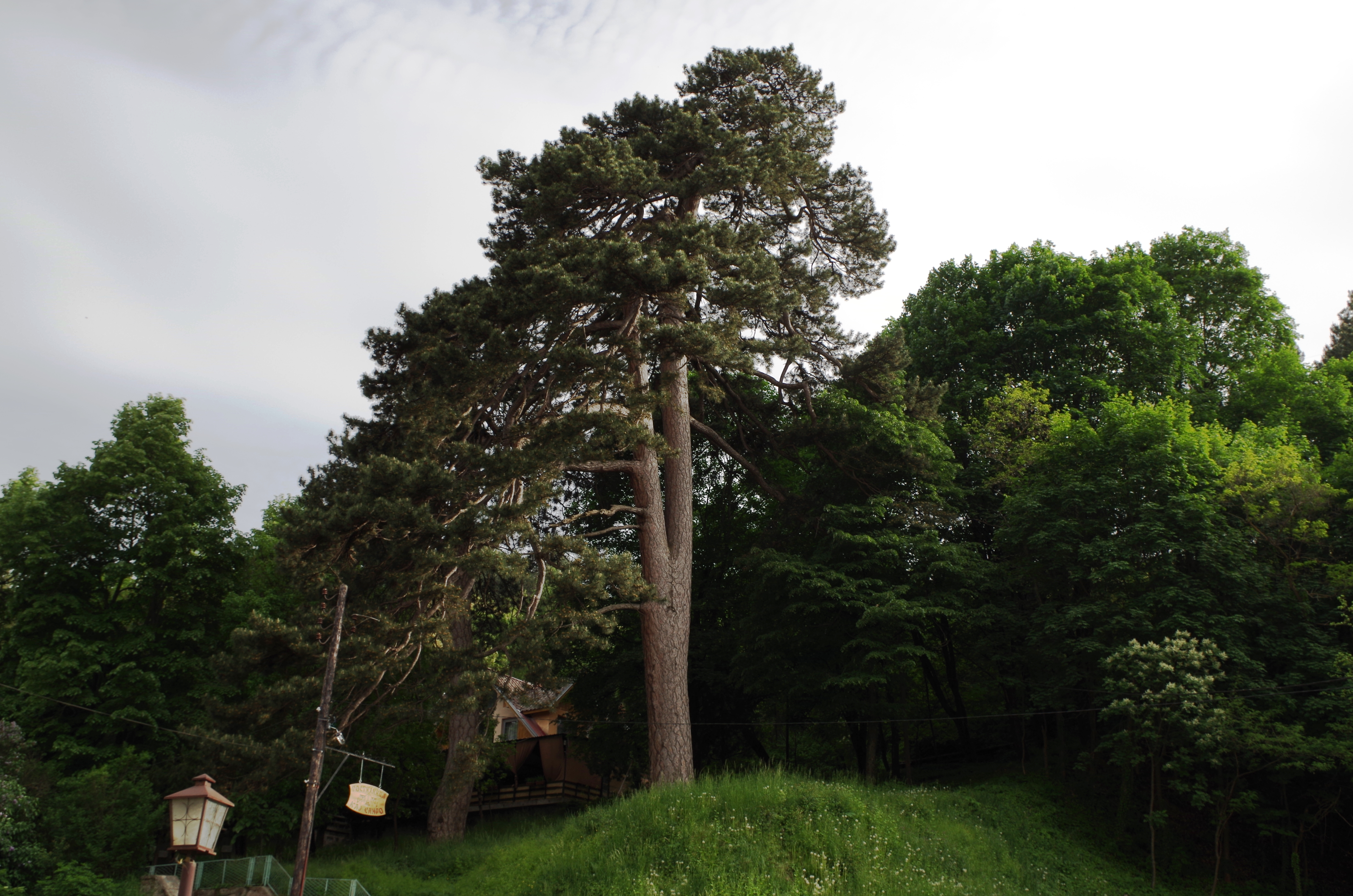 Two oldest trees (pinus) in Kratovo